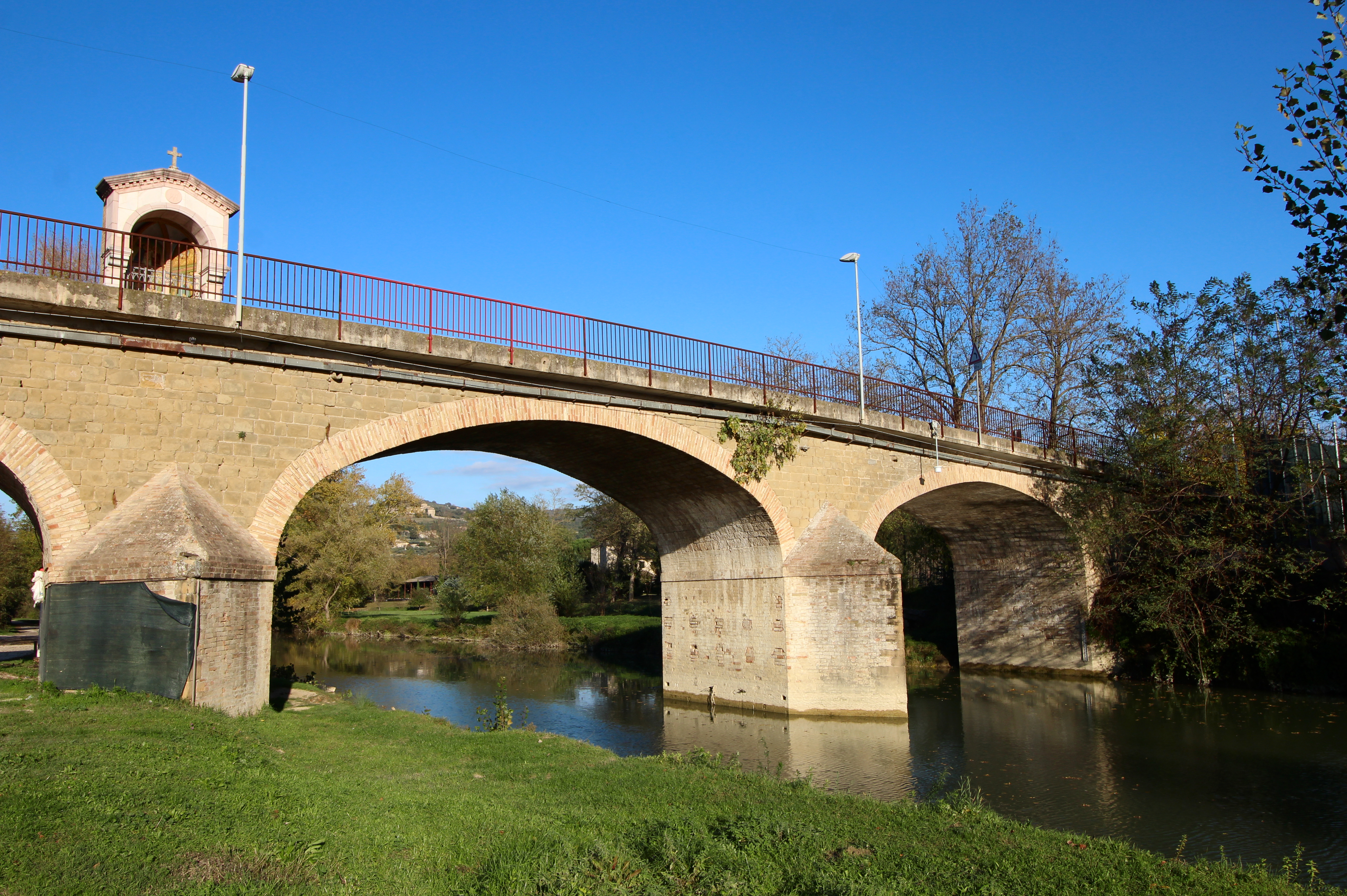 Brigde Ponte a Petrignano and the Chiascio river in Petrignano, hamlet of Assisi, Province of Perugia, Umbria, Italy